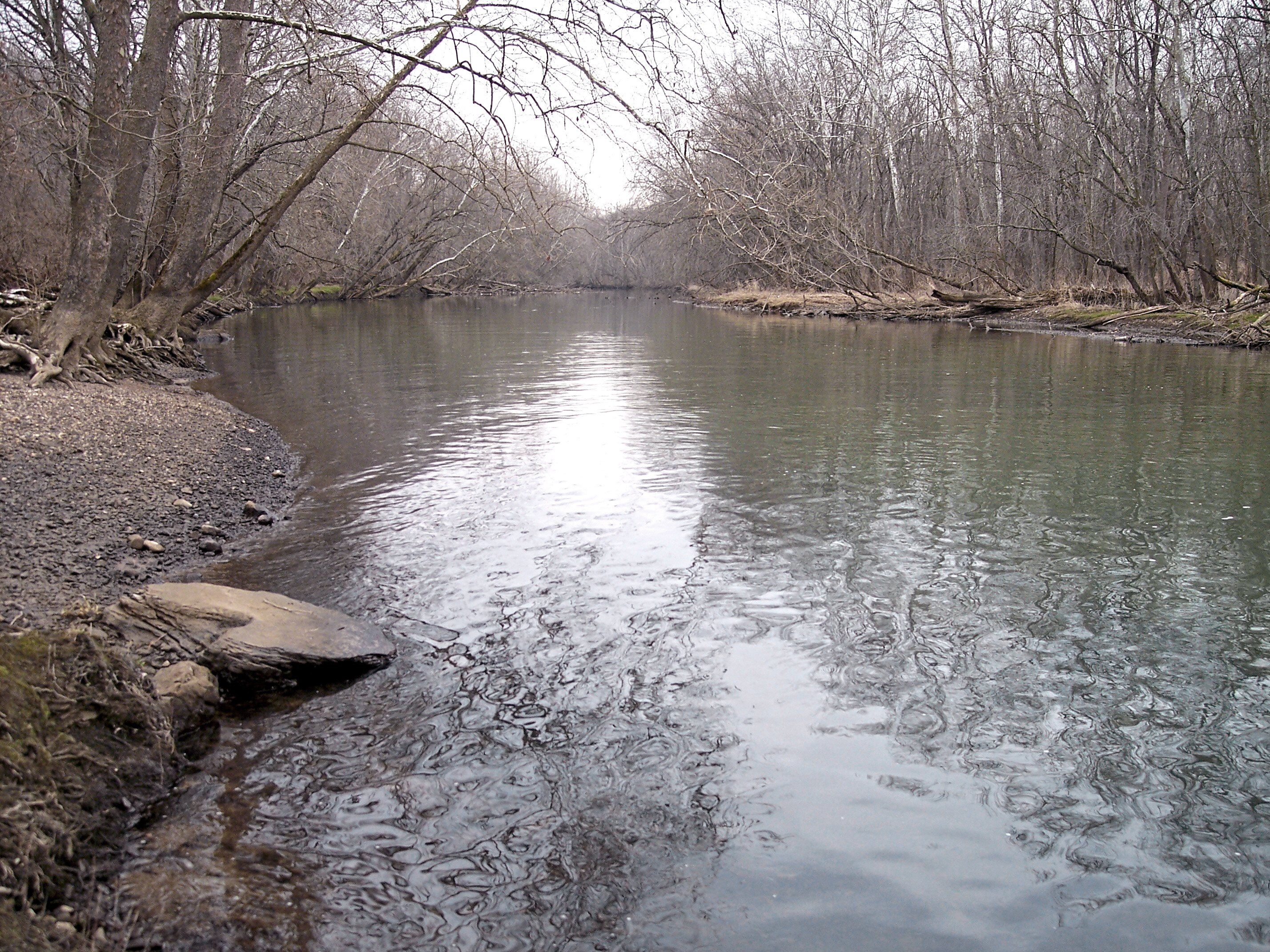 Sandy Creek near its mouth, just downstream of Bolivar Dam in northern Tuscarawas County, Ohio